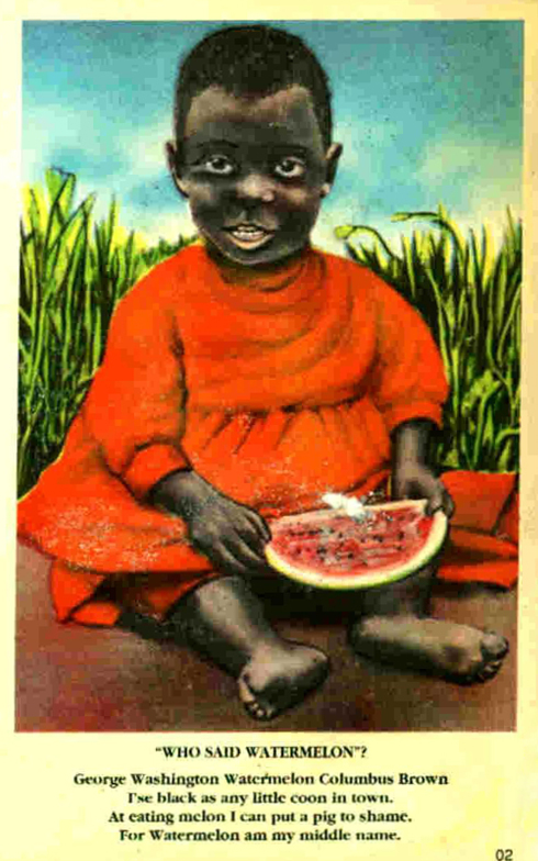 Early-1900s Pickaninny caricature depicting a black child eating a watermelon